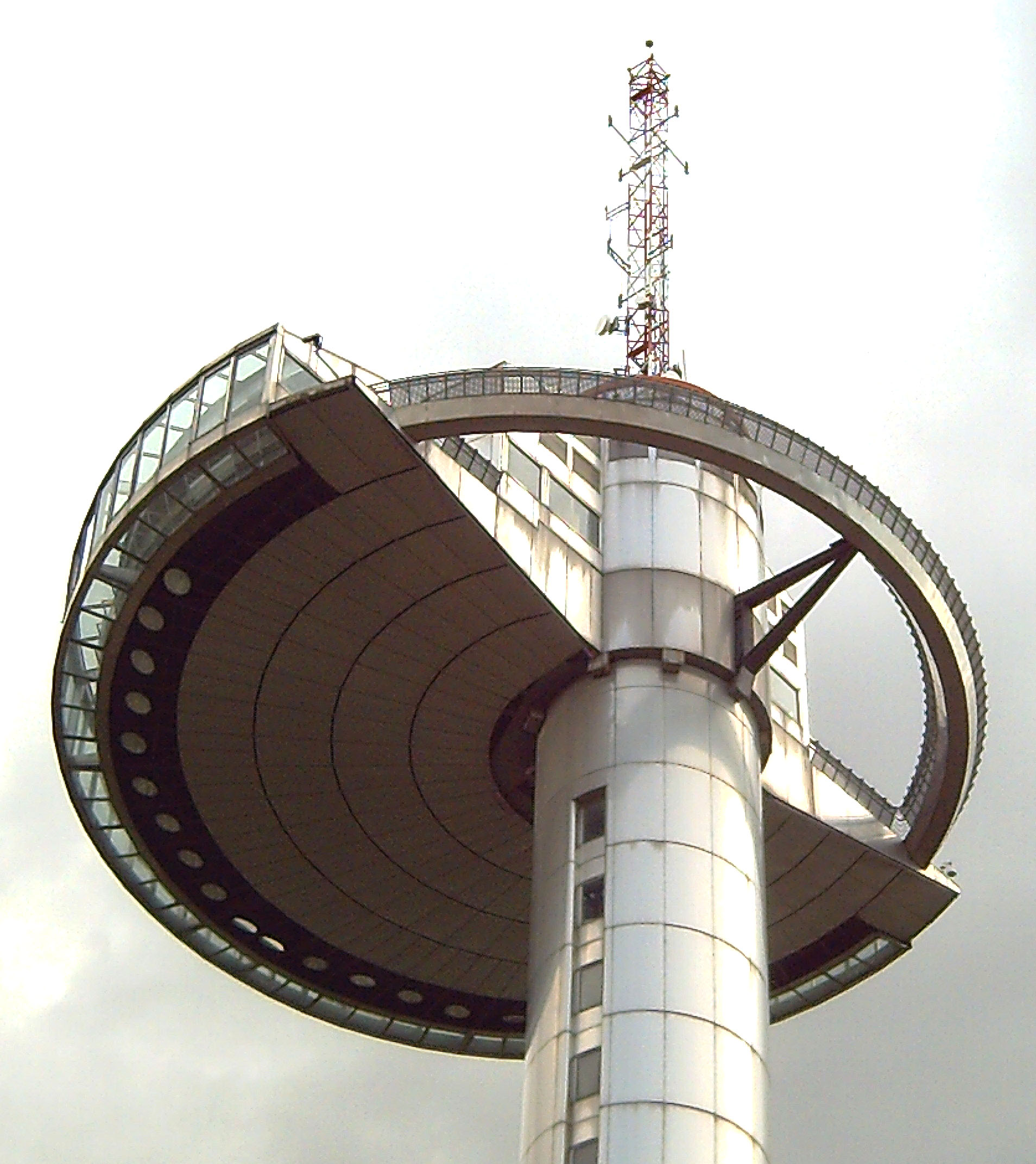 Faro de Moncloa (Madrid, Spain, 1992). Architect: Salvador Pérez Arroyo.